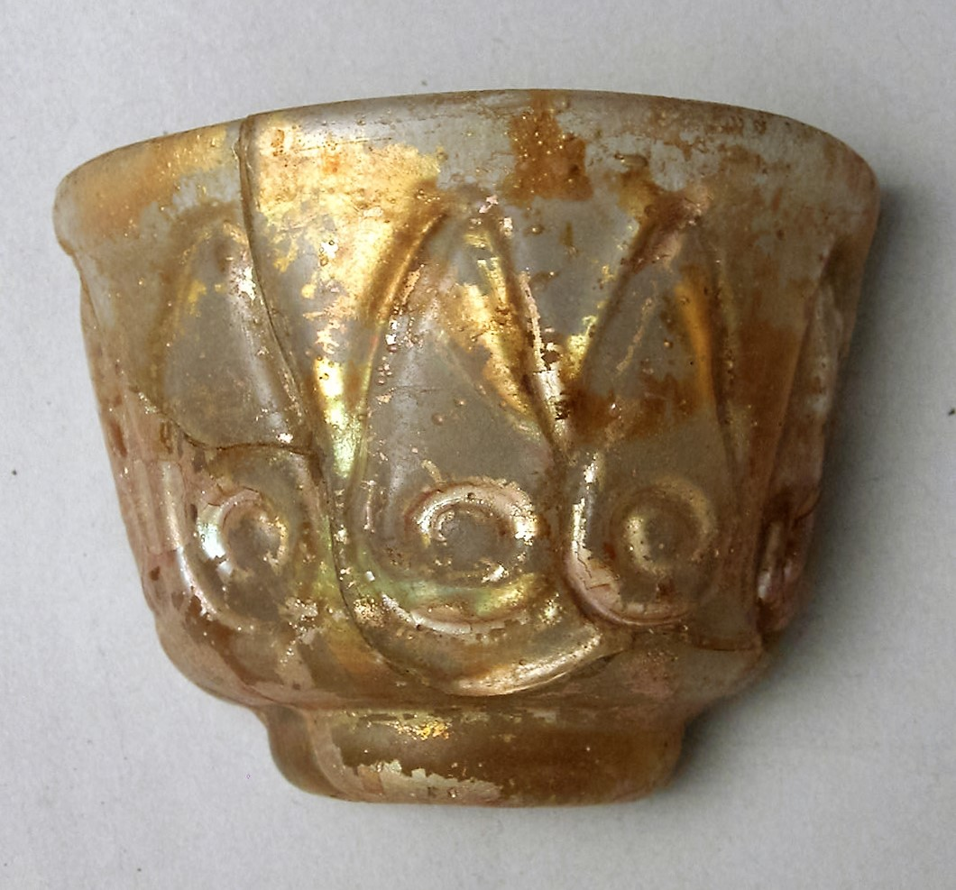 Fragmentary Cup with Molded Designs in the Beveled Style